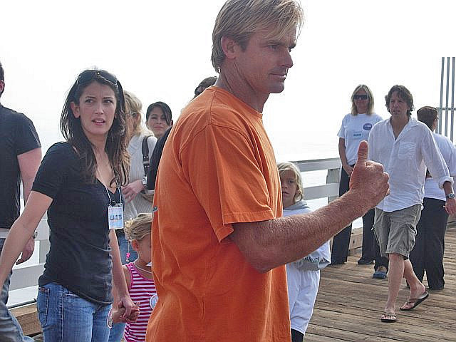 Laird Hamilton. Photo by Anna Chow